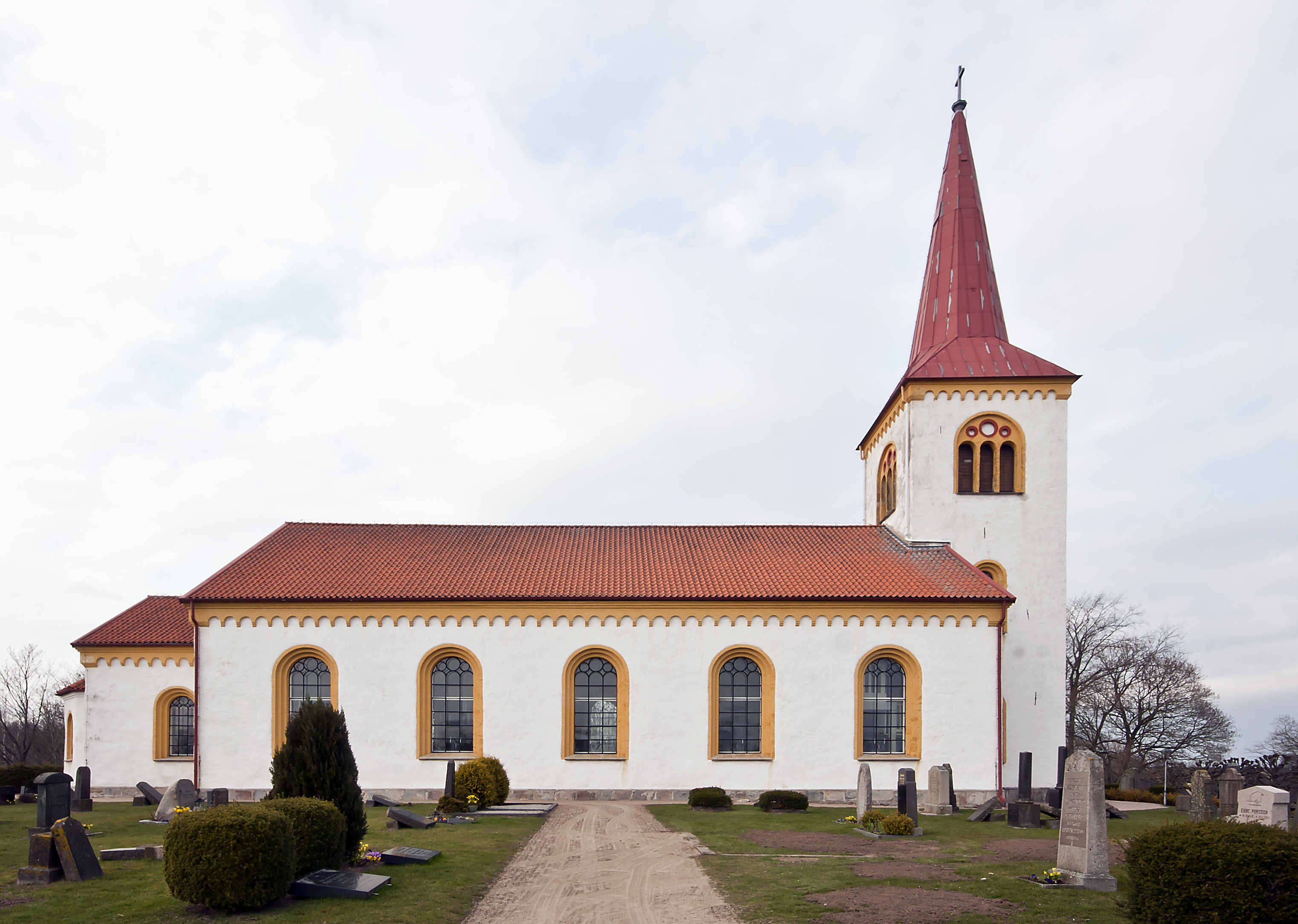 Häglinge Church, Sösdala Parish, Diocese of Lund, Church of Sweden.